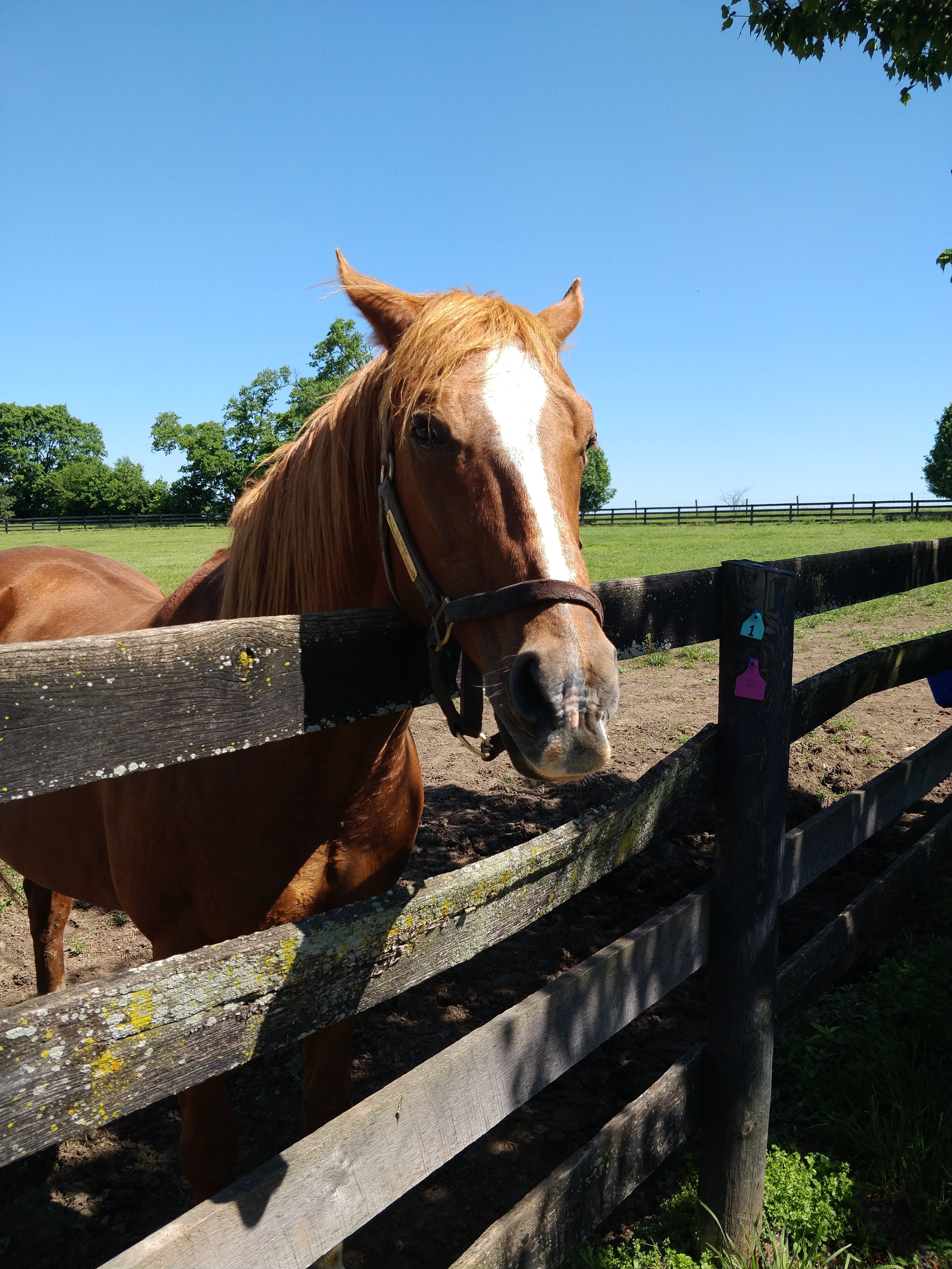 At Old Friends Feel free to use this photo however you like, just attribute . Thanks!